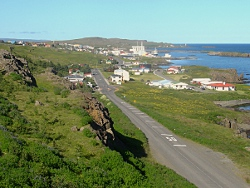 Vopnafjordur, Iceland